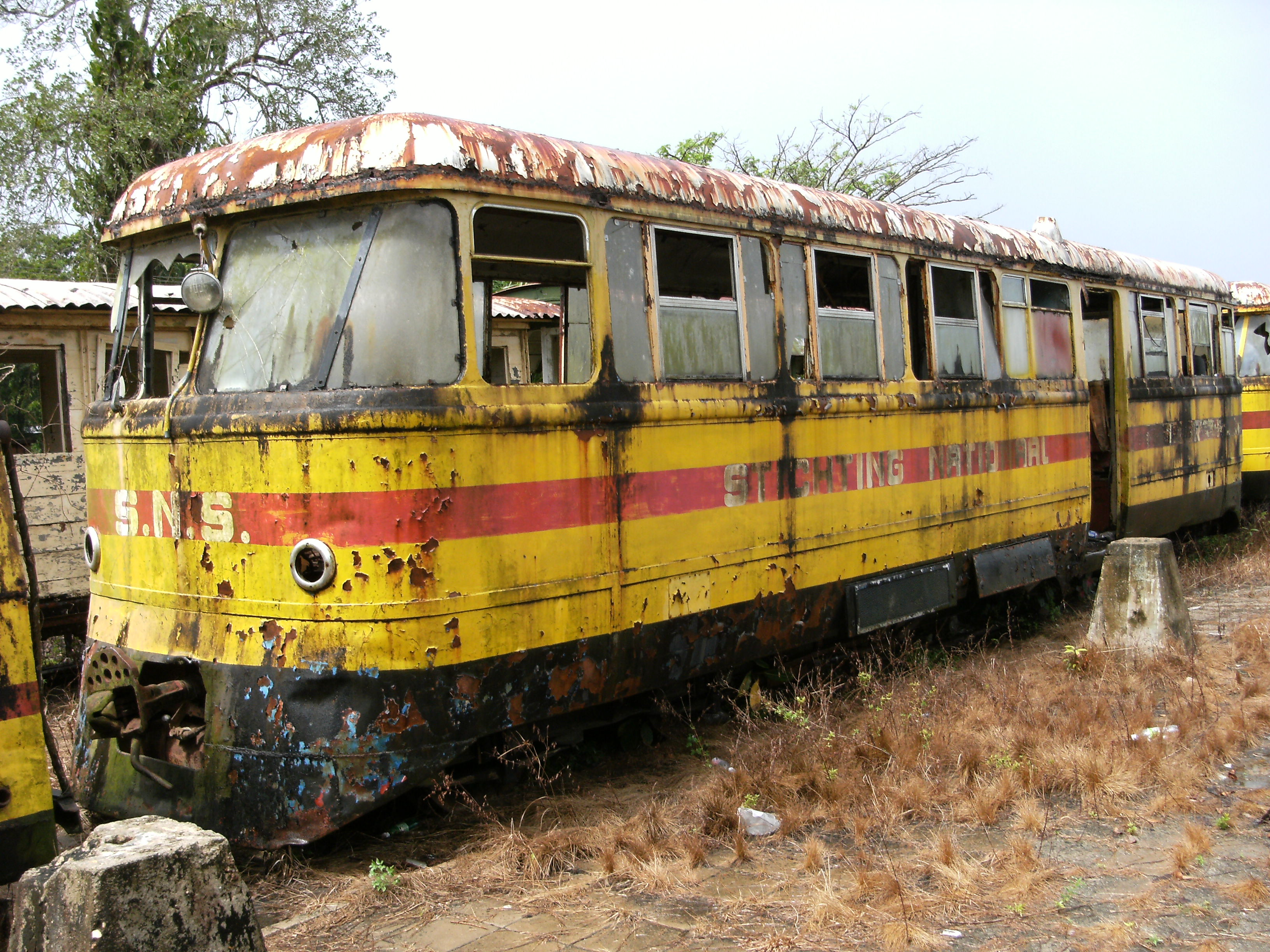 Train at abandoned station of the town "Onverwacht" in Suriname. This station was part of a railway line built by Cornelis Lely especially for the transport of gold miners to and from the interior regions of Suriname. The line went out of function in the Eighties.